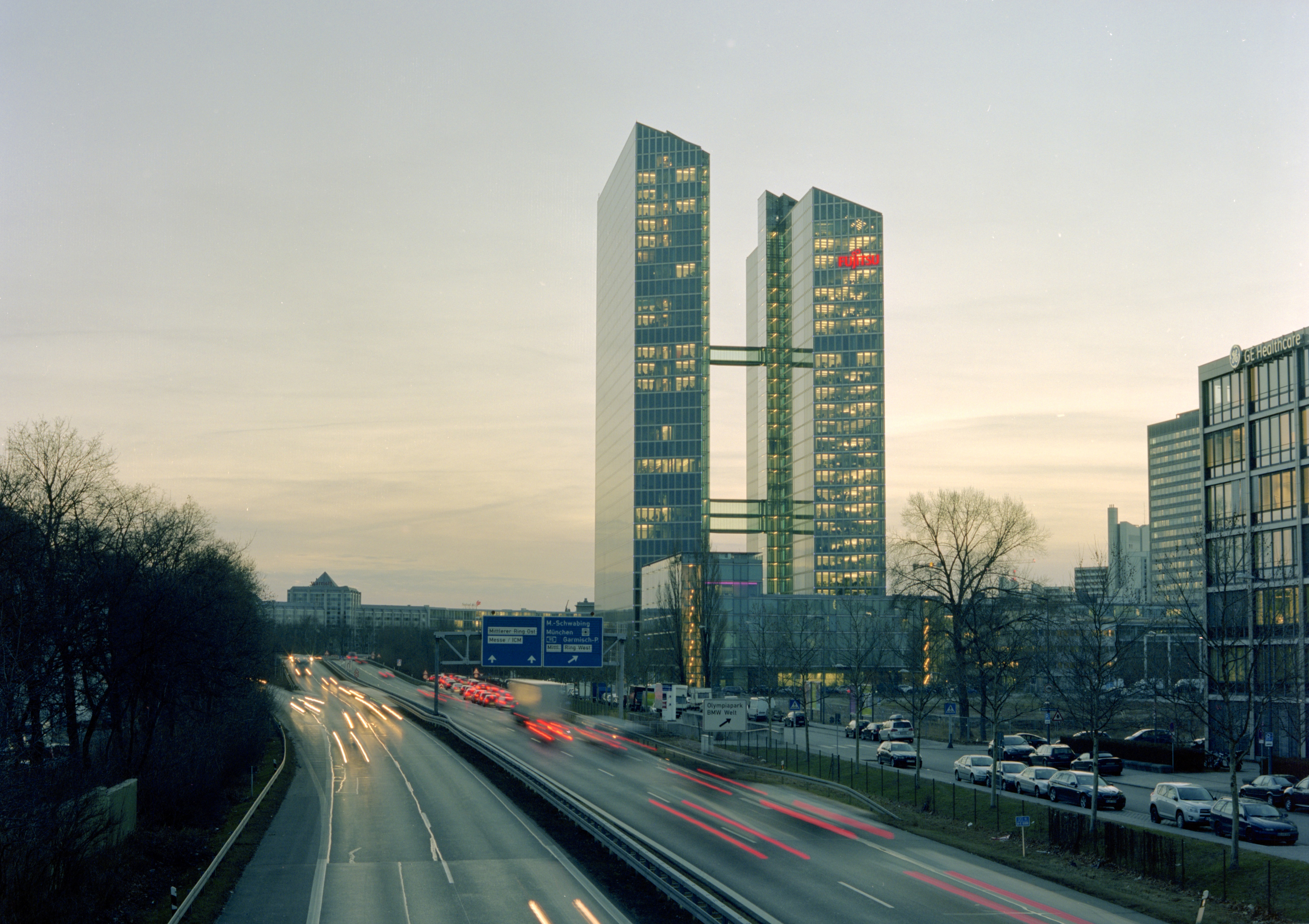 Highlight Towers, Munich 2014